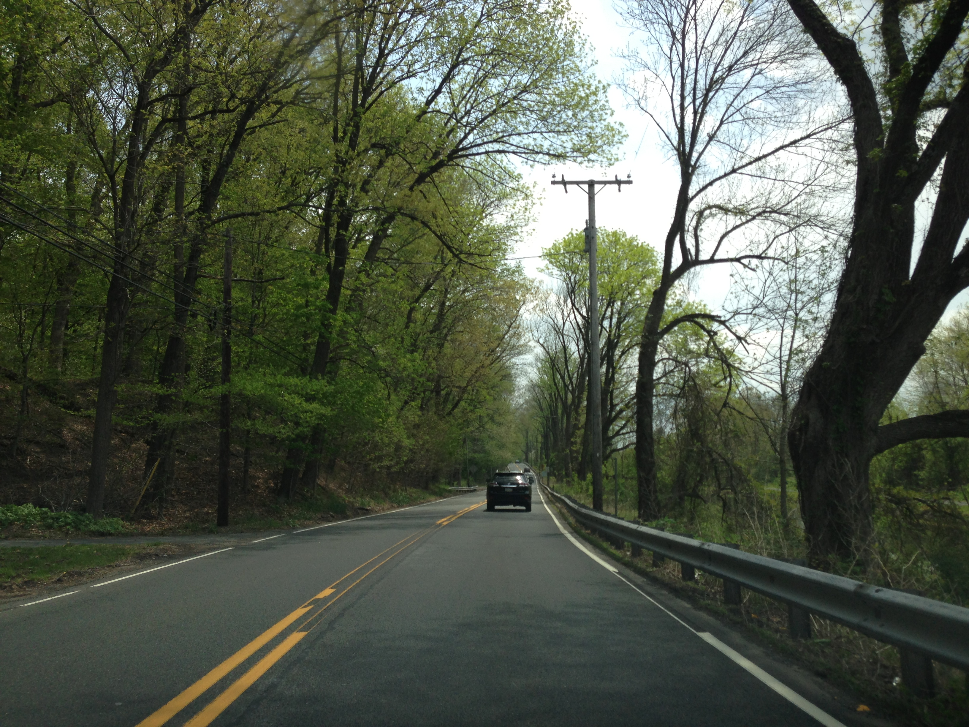 View south along New Jersey Route 29 entering Hopewell Township, New Jersey